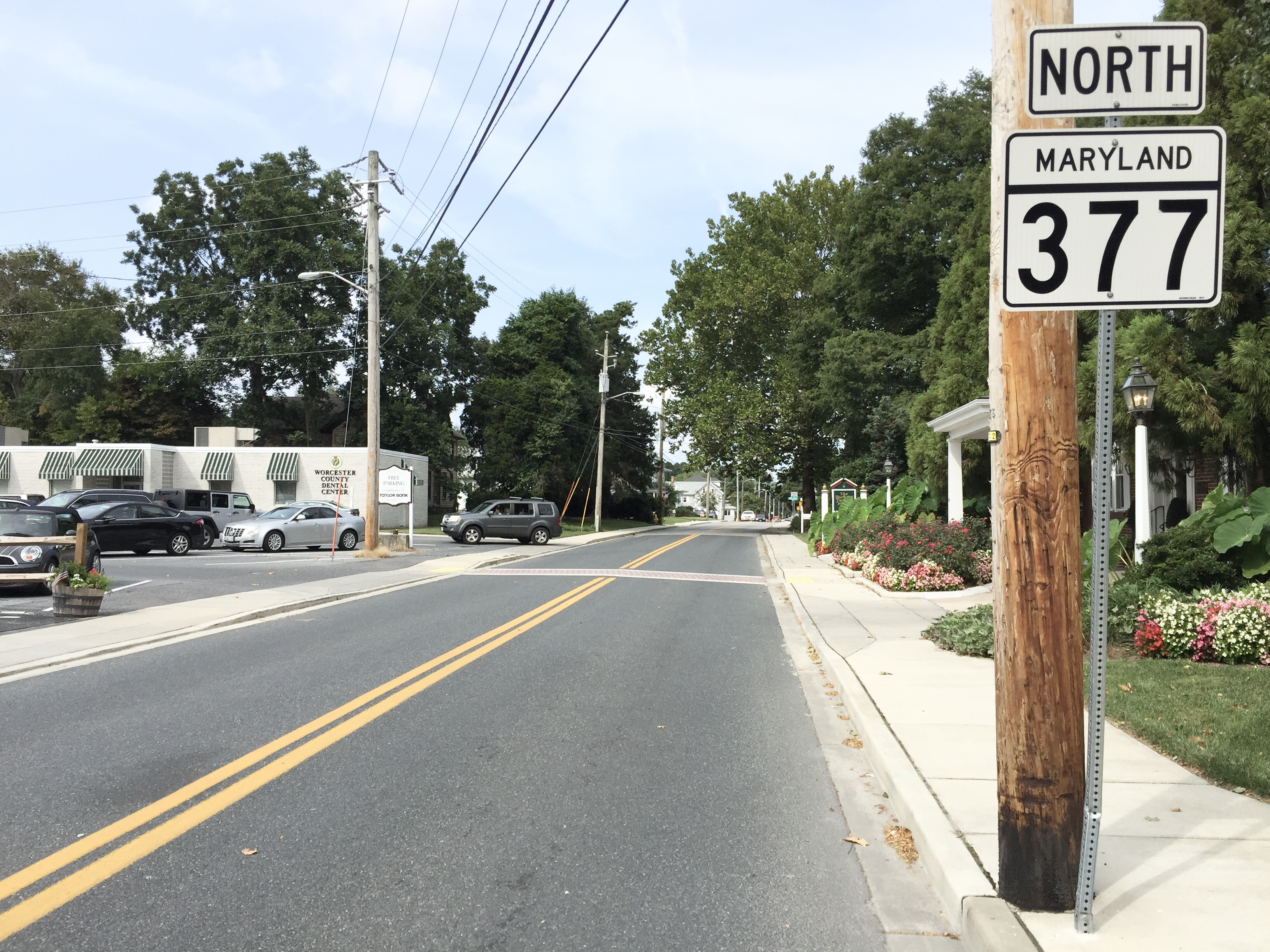 View north along Maryland State Route 377 (Williams Street) at Pitts Street in Berlin, Worcester County, Maryland